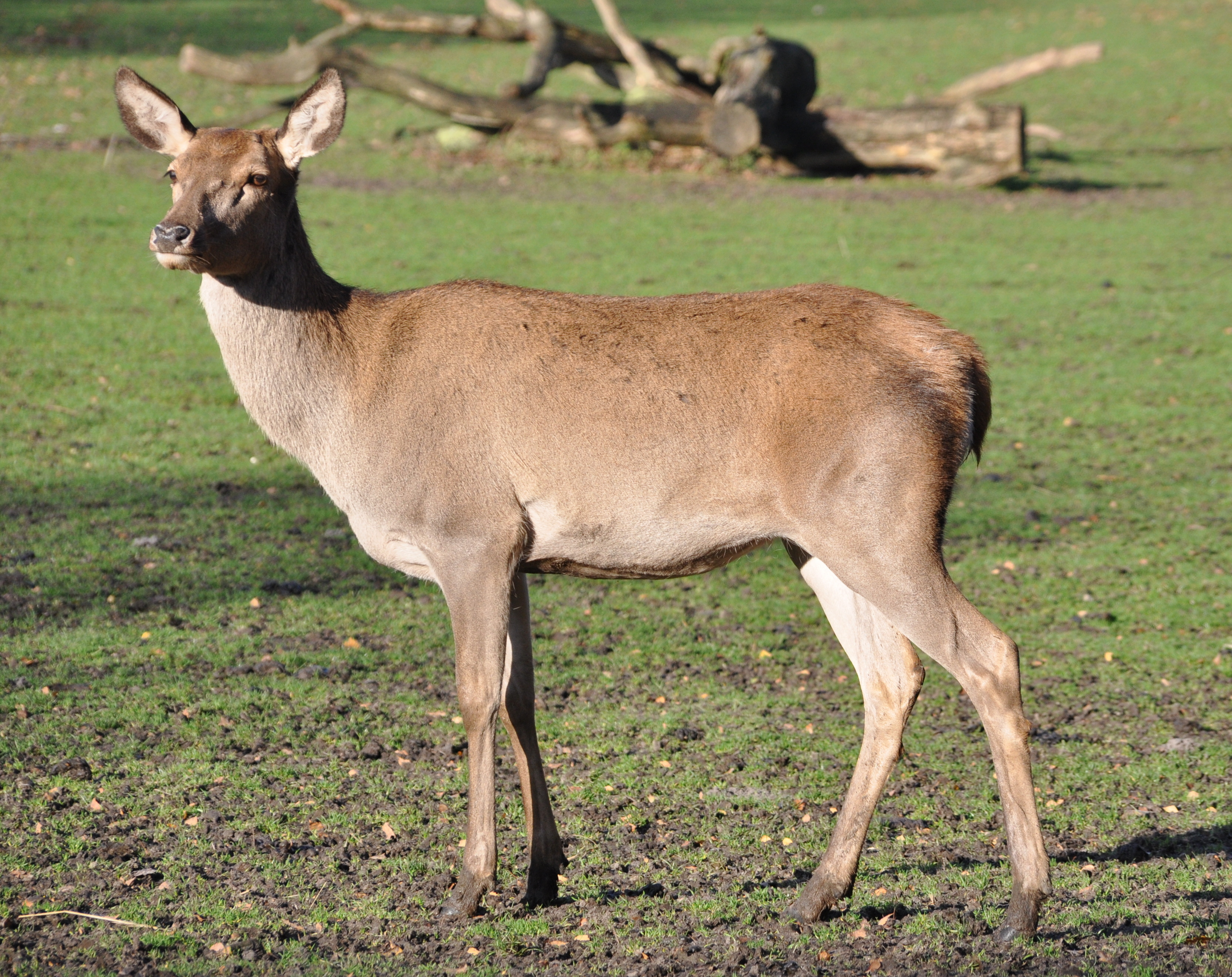 Red Deer (Cervus elaphus) in the Lüneburg Heath wildlife park, Germany.